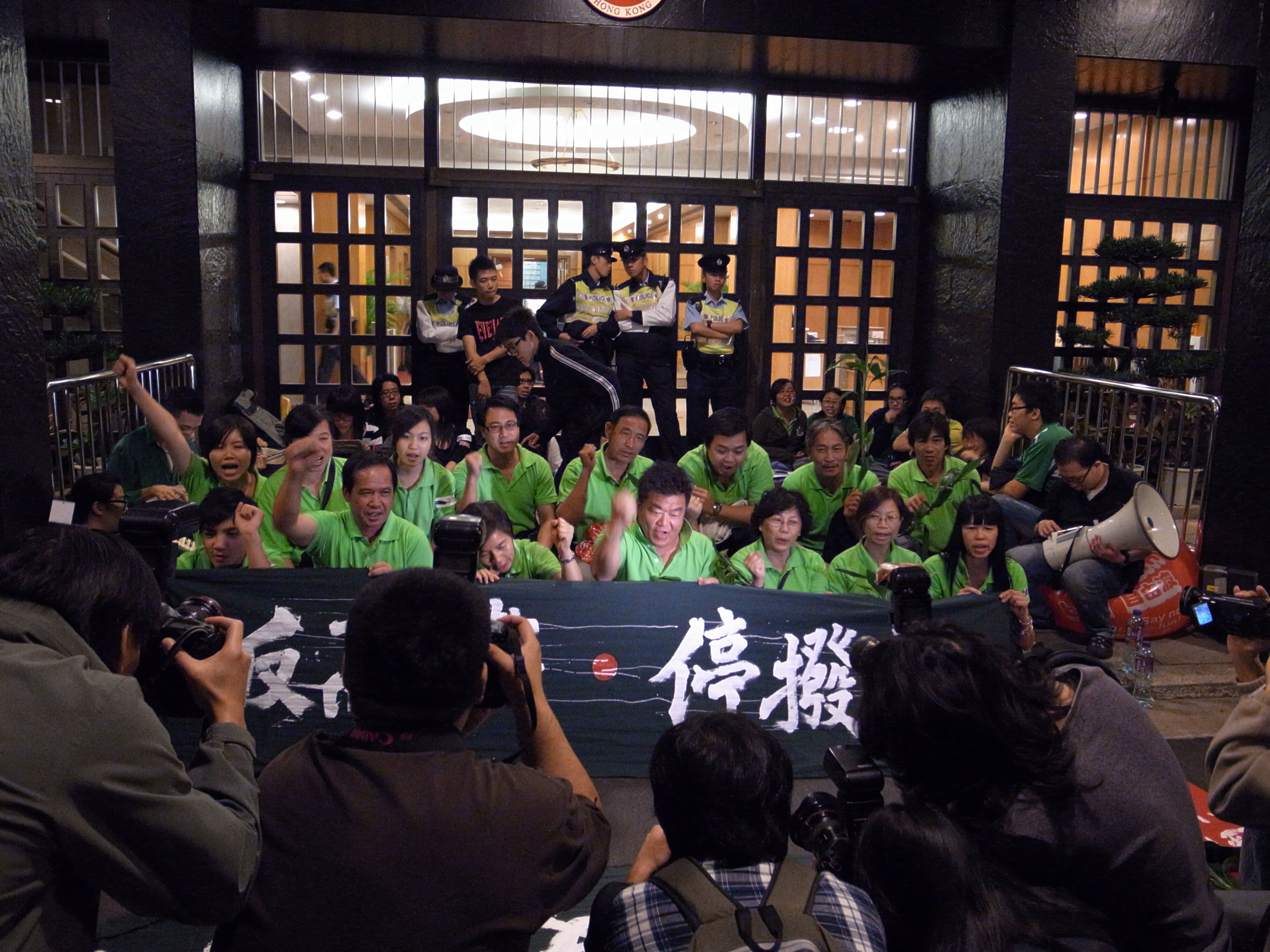 Anti-Guangzhou-Shenzhen-Hong Kong rail oppositions